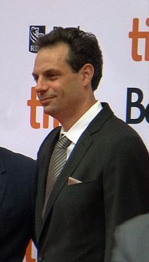 Iain Canning and Emile Sherman at the premiere of Lion, 2016 Toronto Film Festival